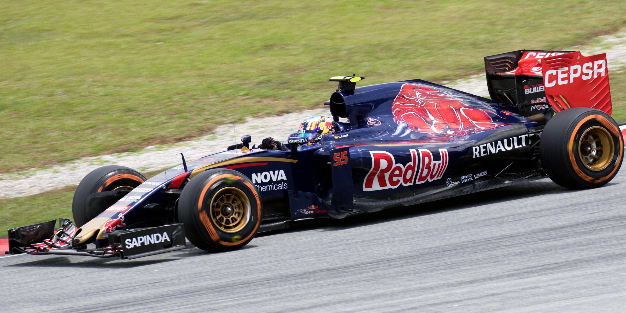 Formula One 2015 Rd.2 Malaysian GP: Carlos Sainz Jr. (Toro Rosso)